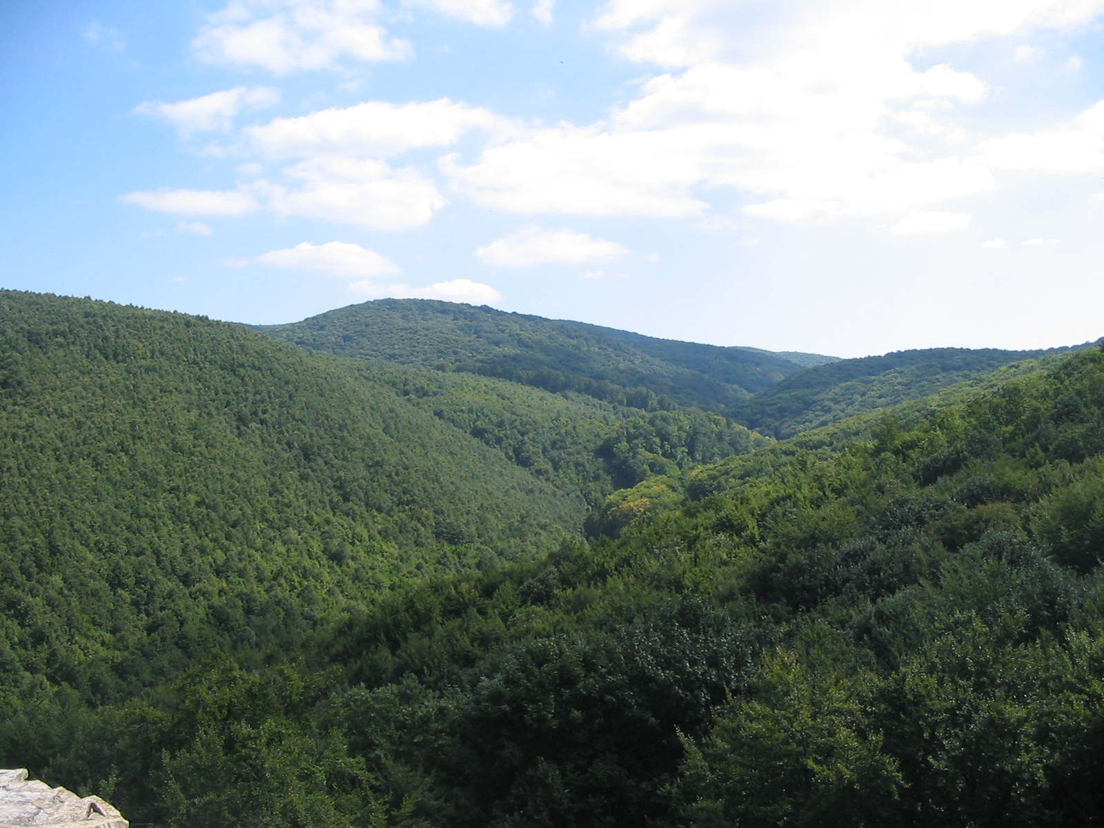 Mecsek, Baranya county, Hungary; taken from the Castle of Máré